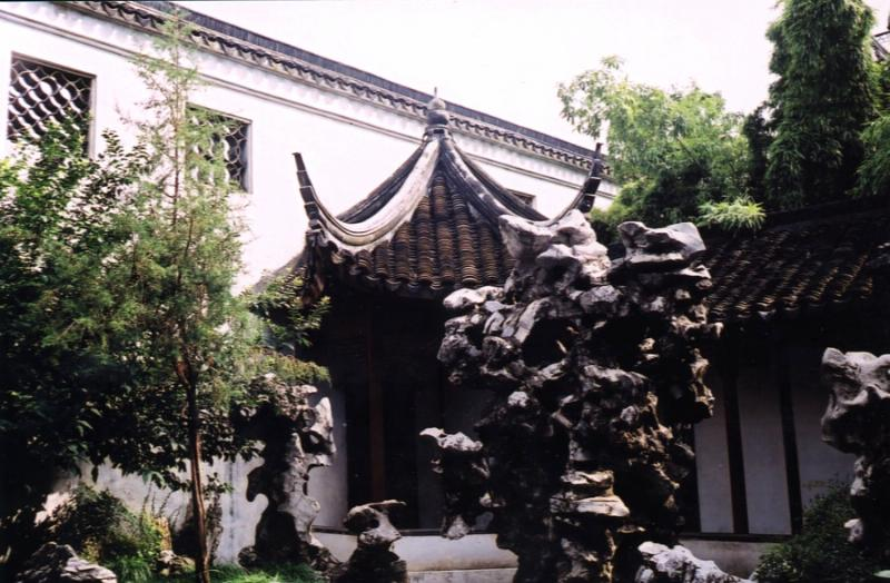 Decorative rocks in the Lion Grove Garden狮子林奇石